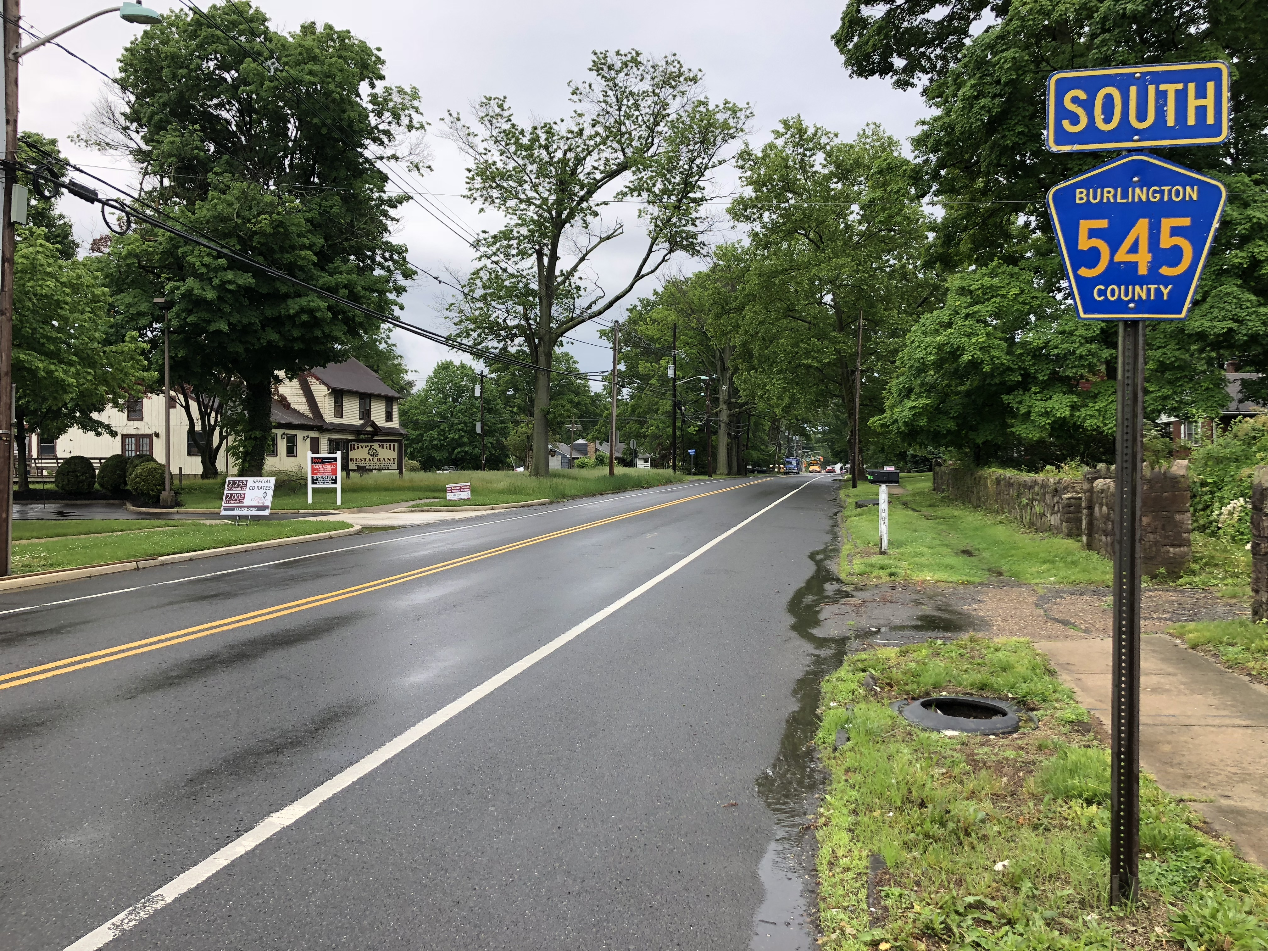 View south along Burlington County Route 545 (Farnsworth Avenue) at U.S. Route 130 in Bordentown Township, Burlington County, New Jersey